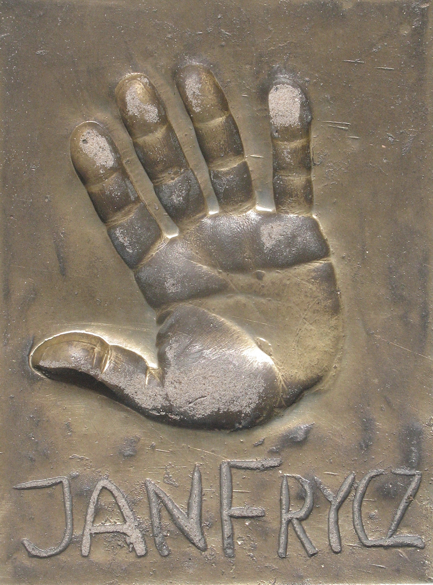 Jan Frycz - handprint and signature in Międzyzdroje